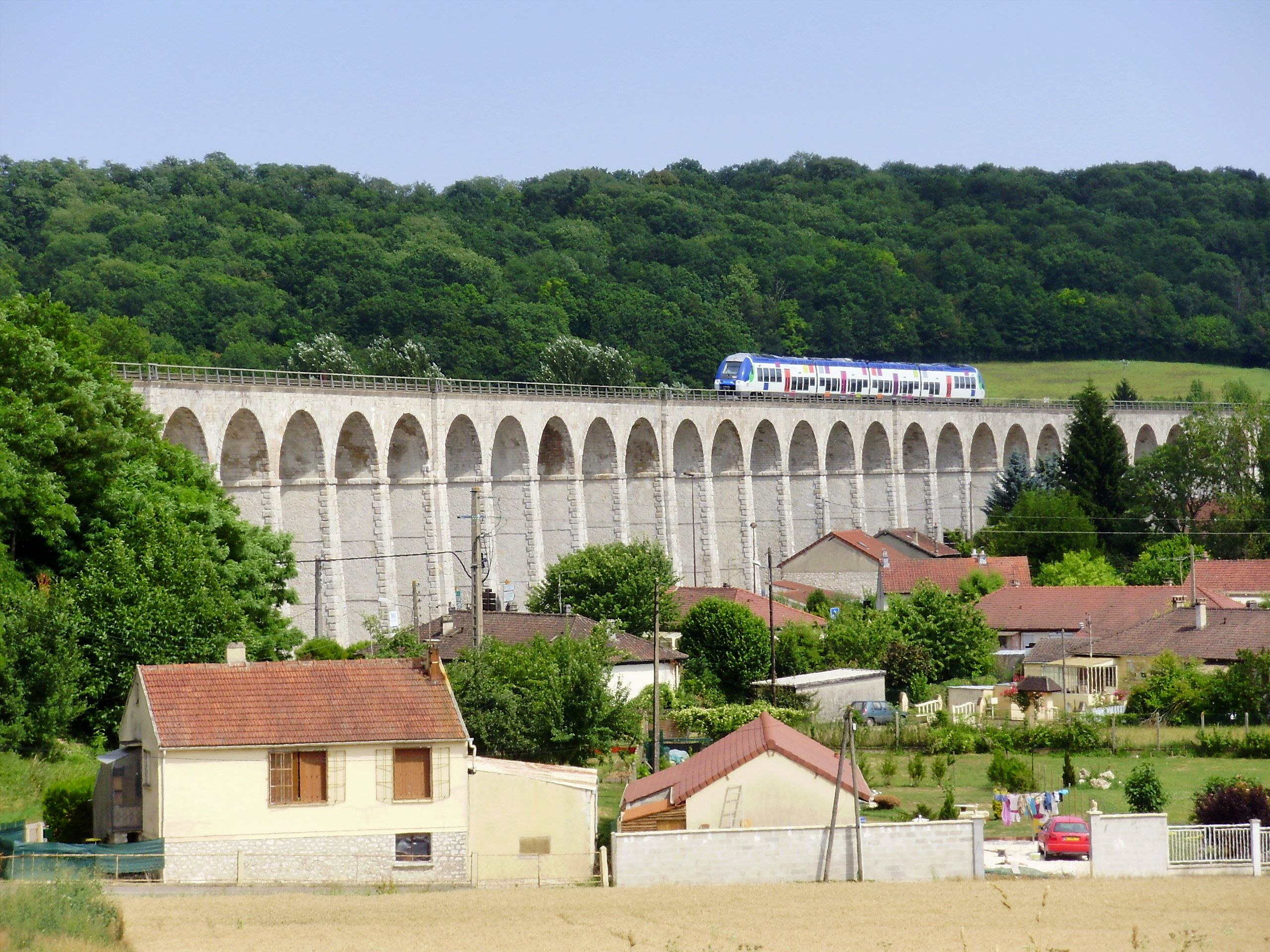 Railway bridge of Longueville, Seine-et-Marne, France with a mulitple unit B 82500 to Paris (view from the hill west of the viaduct)